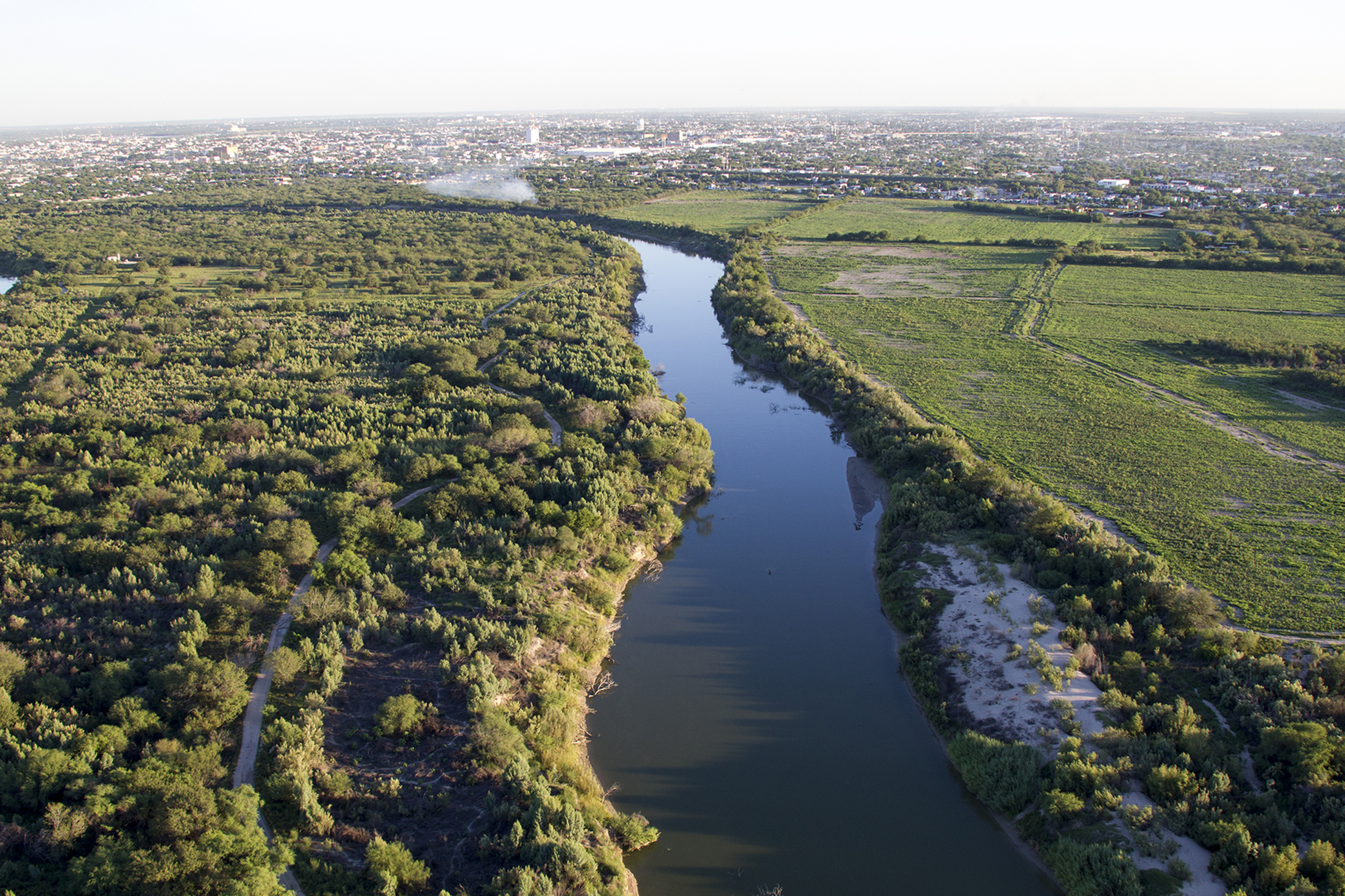 South Texas aerial Rio Grande River border area taken on September 23, 2013. Photographer: Donna Burton